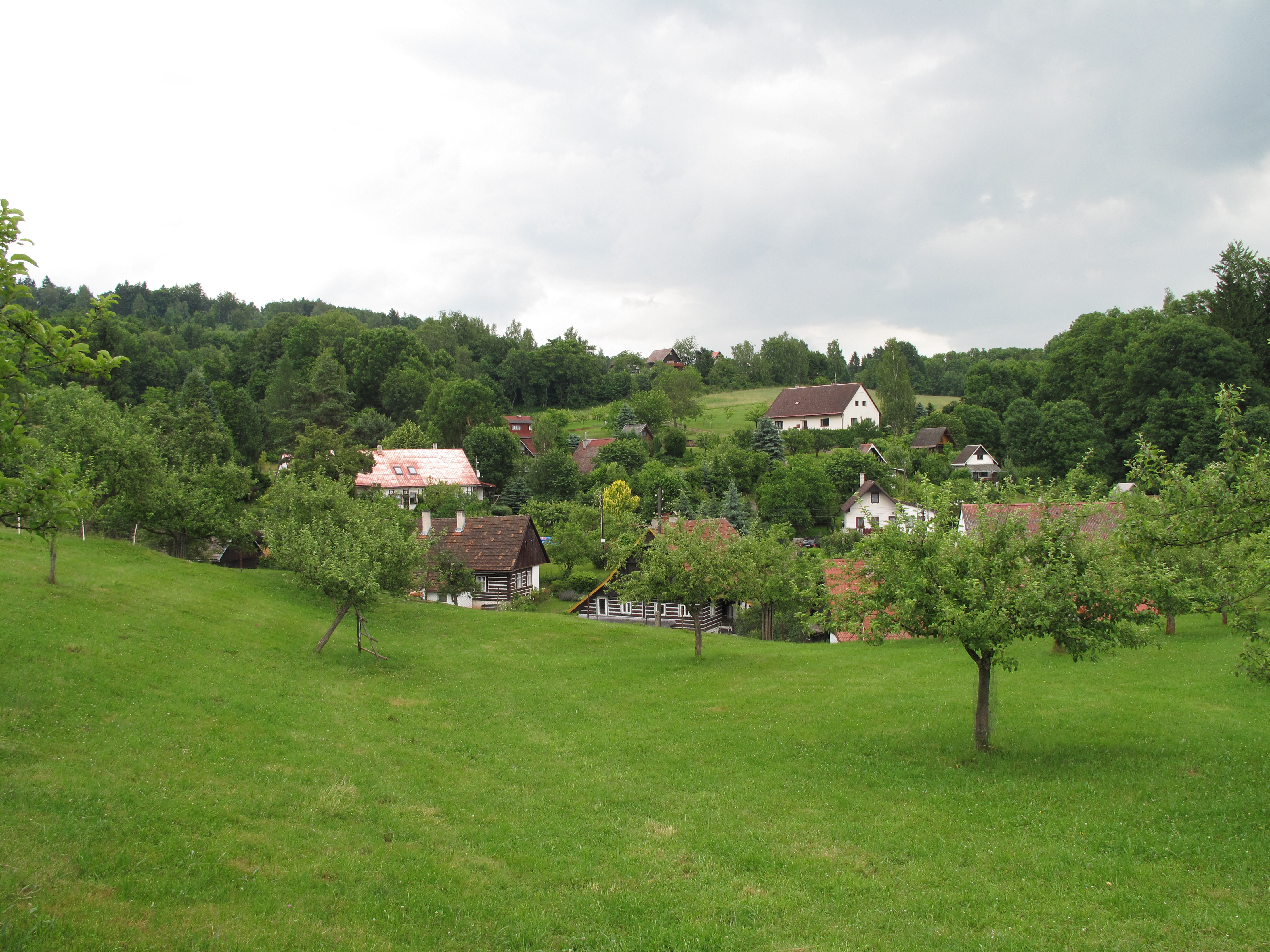 Orchard in Štěpanice village, Jičín District, Czech Republic.